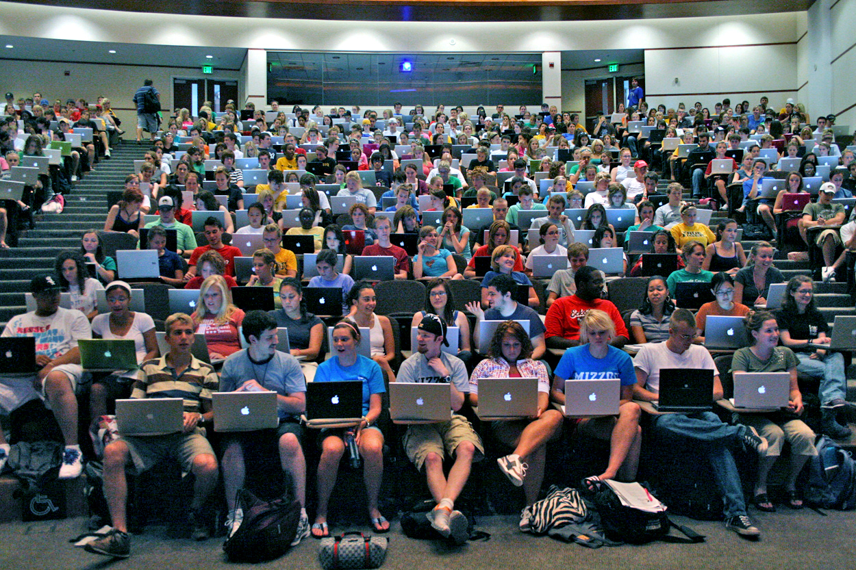 University Missouri School of Journalism